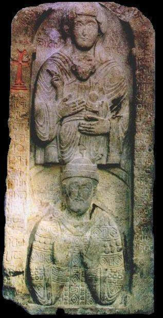 David III of Tao, a Georgian prince of the Bagratid family